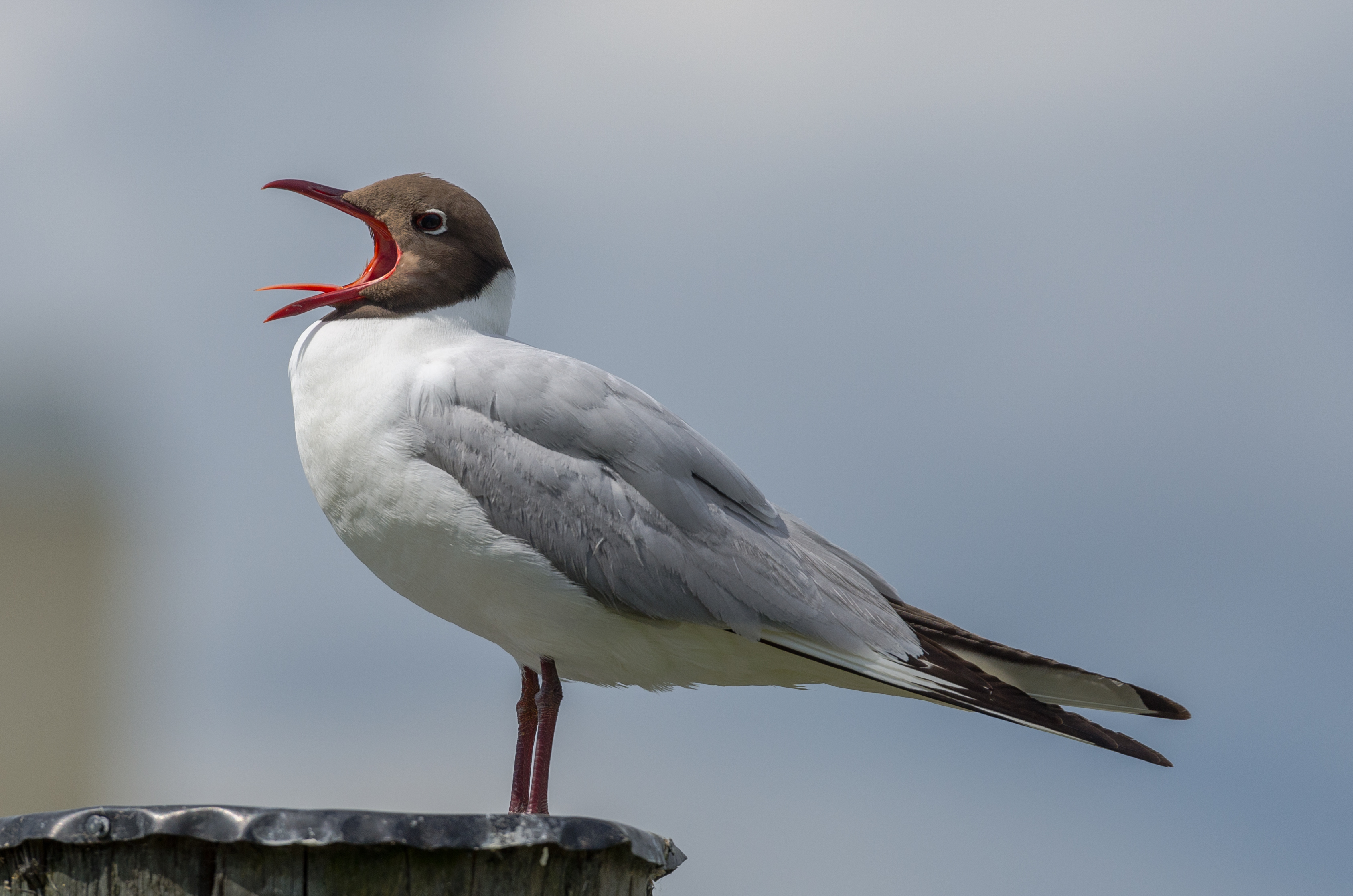 Black-headed Gull. Södra Hammarbyhamnen, Stockholm.